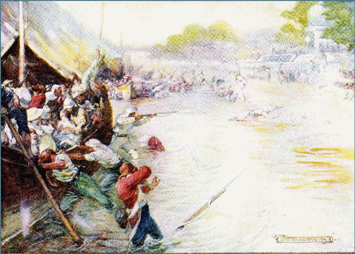 This book provides a vivid and picturesque account of the principal events in the building of the British Empire. It traces the development of the British colonies from the days of discovery and exploration through settlement and establishment of government. Included are stories of the five chief portions of the British Empire: Canada, Australia, New Zealand, South Africa, and India.